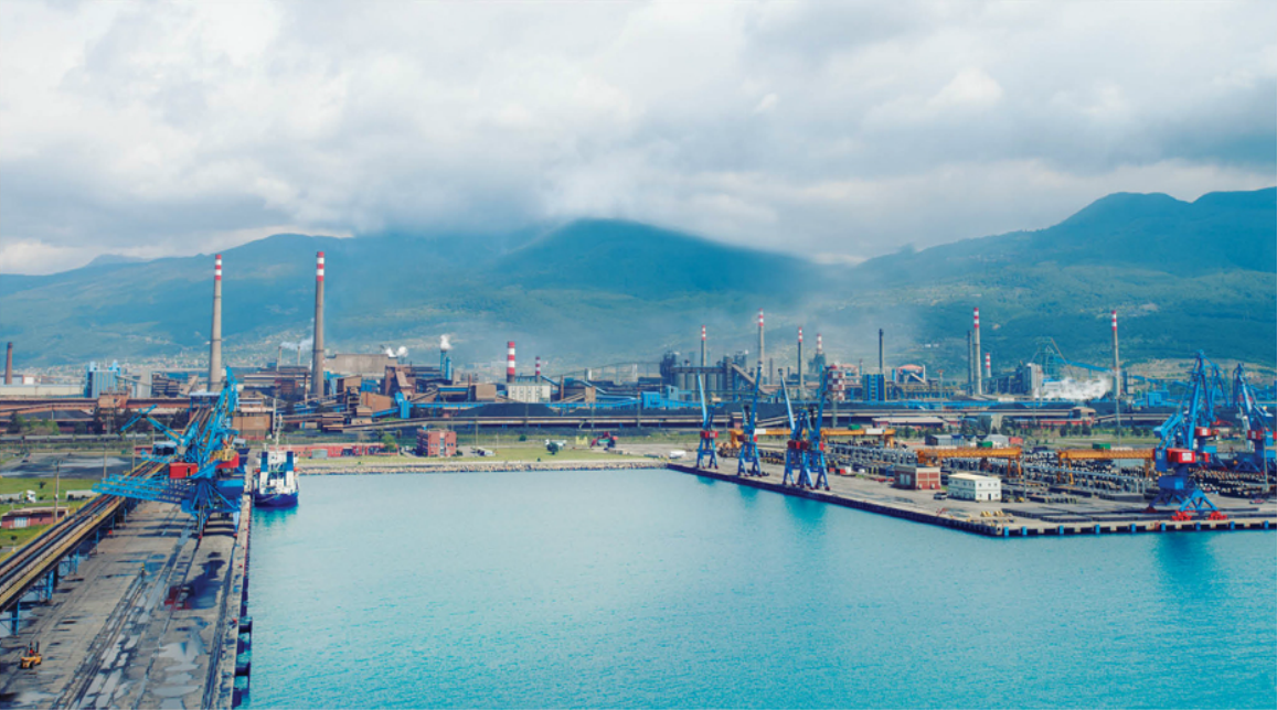 view of the port of loading İsdemir